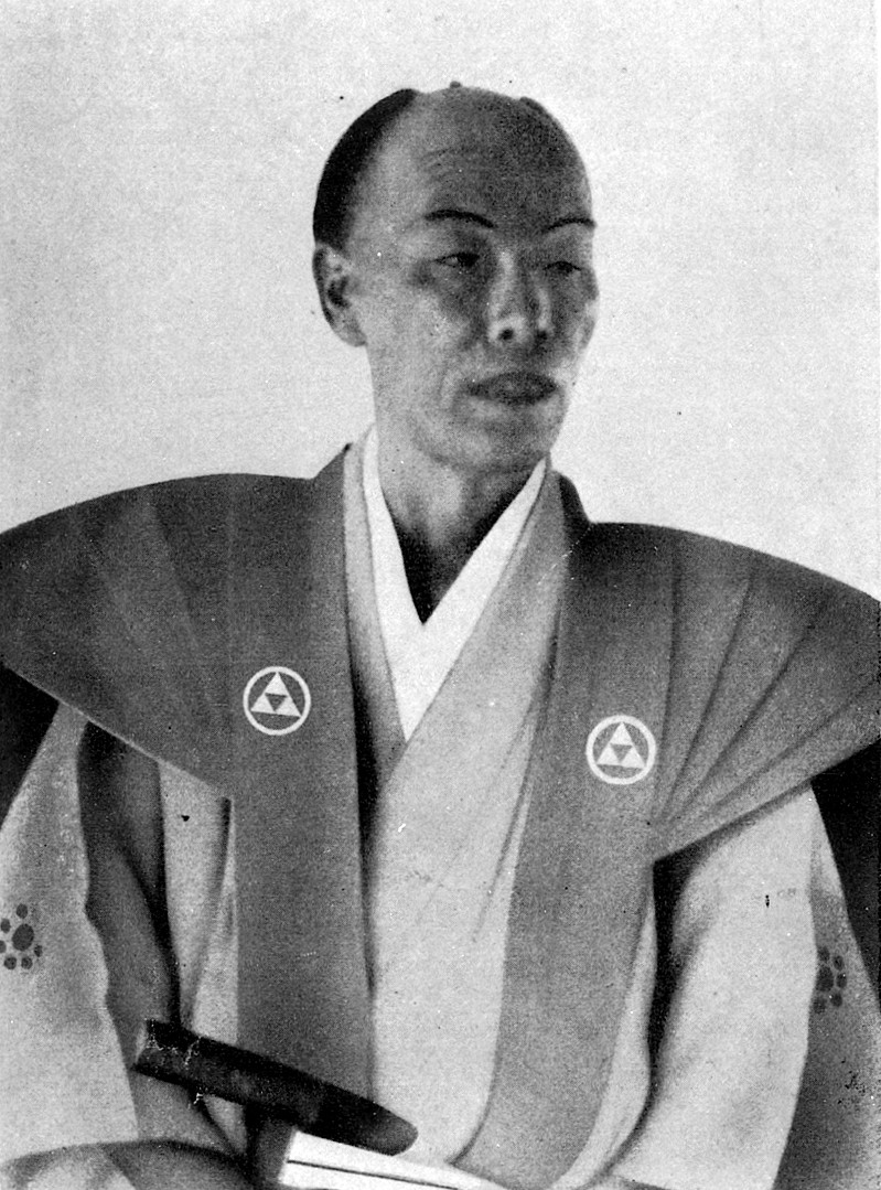 Portrait of Yokoi Shonan (横井小楠, 1809 – 1869)